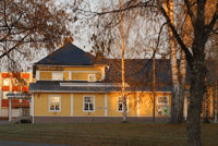 Varkauden Teatteri